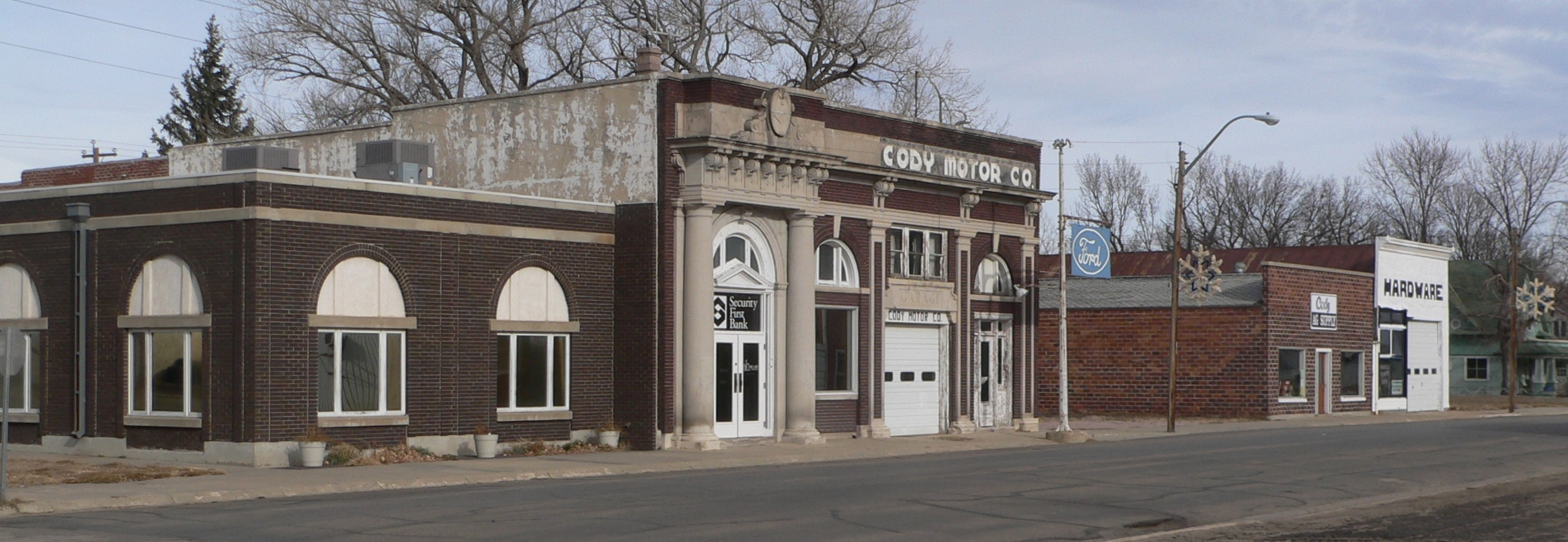 Downtown Cody, Nebraska: Cherry Street.